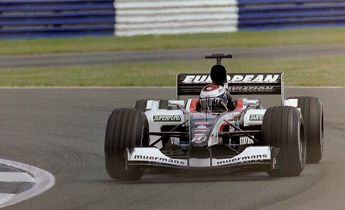 Jos Verstappen, driving his European Minardi Cosworth at the 2003 British Grand Prix.